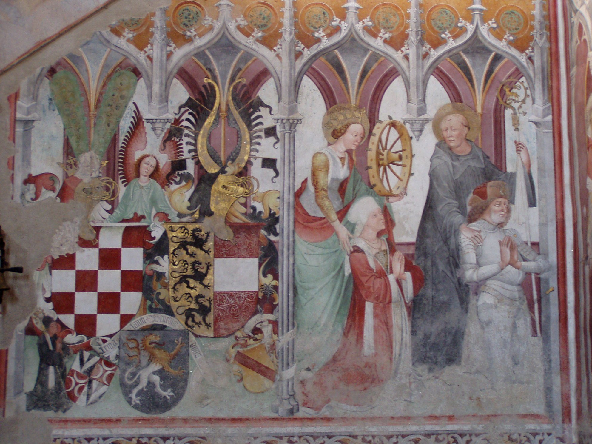 Benedictine Monastery of Sankt Paul im Lavanttal, Carinthia, Austria; Stifterfresko von Thomas von Villach im Nordquerhaus der Stiftskirche